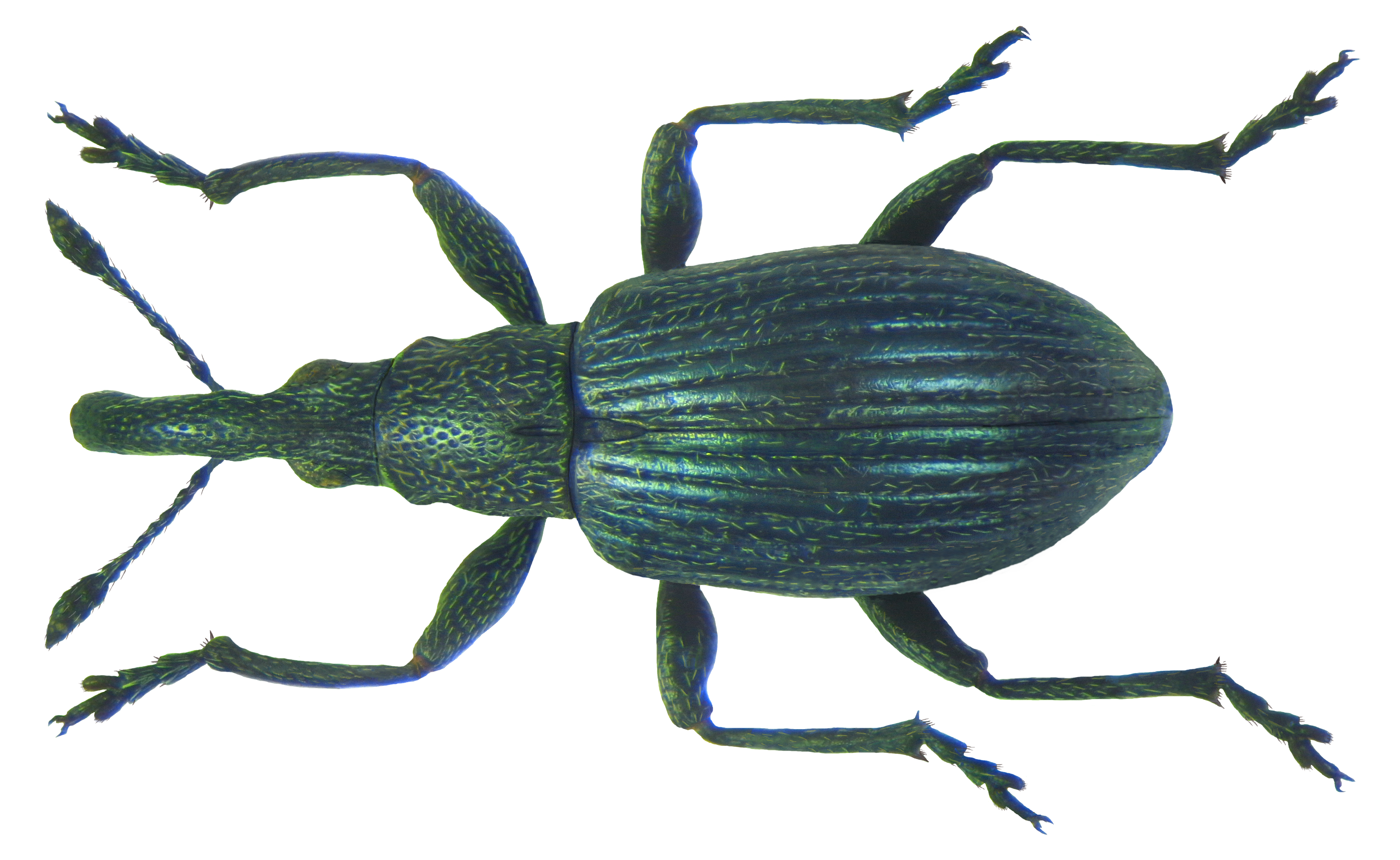 Family: Apionidae Size: 2,2-3 mm Origin: palaearctic Ecology :lives on Malvaceae Location: England, Bognor leg.det. P.Harwood, VIII.1929 Coll. Museum Oxford Photo: U.Schmidt, 2012